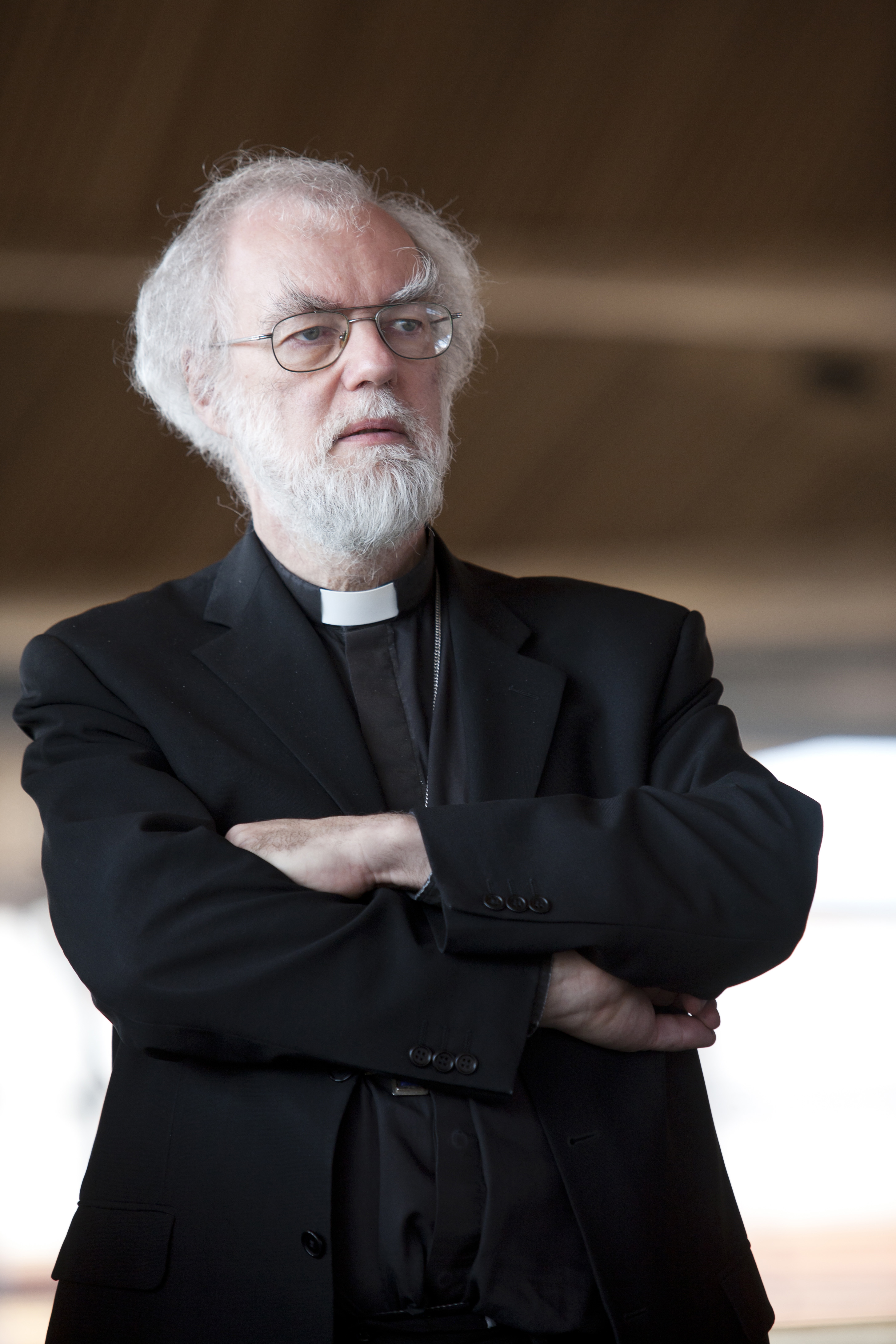 Archbishop of Canterbury, DR Rowan Williams visits The National Assembly for Wales, Cardiff, 26 March 2012.